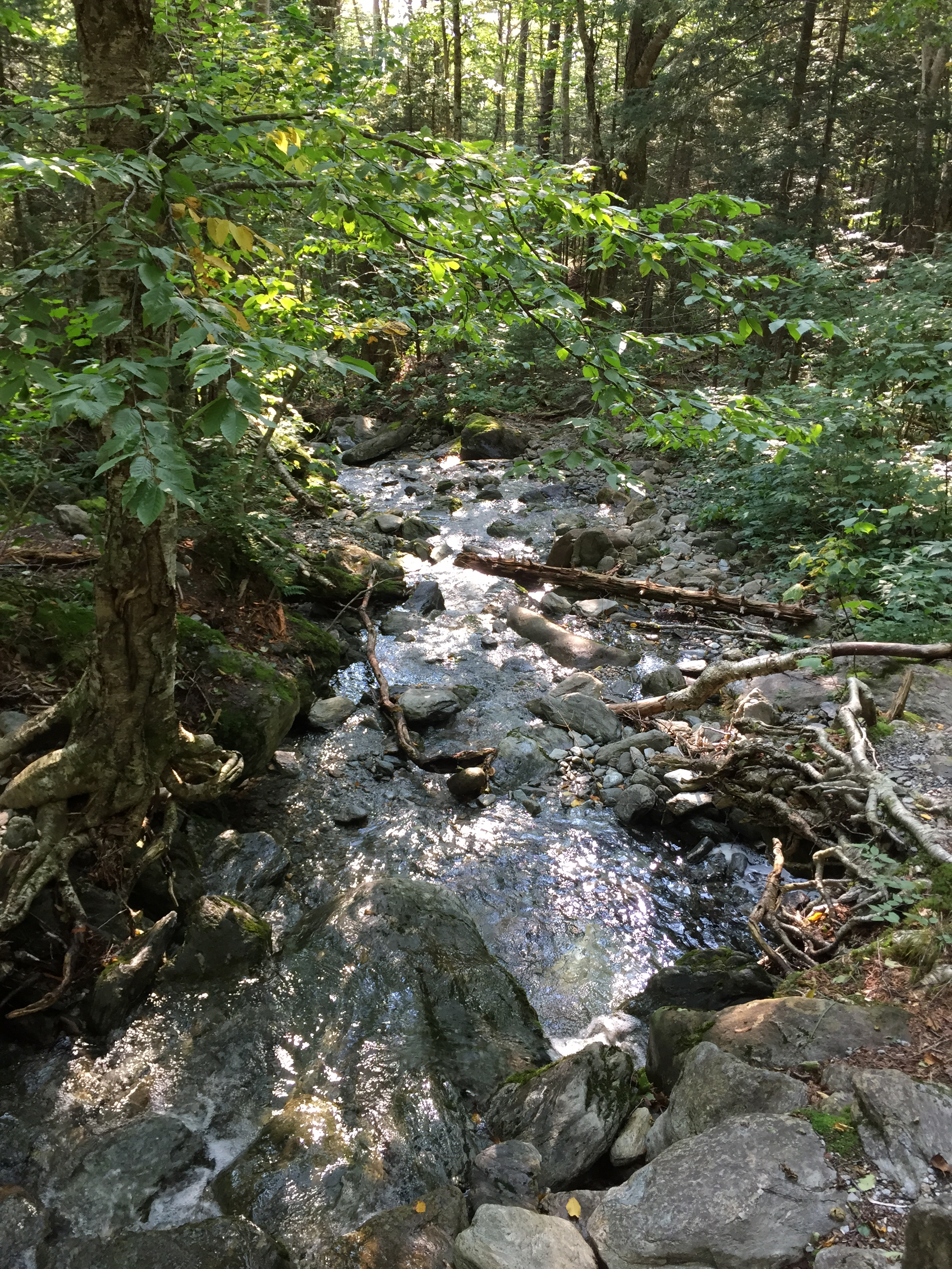 View west-southwest down the Browns River from the Sunset Ridge Trail at about 2,320 feet above sea level on the western slopes of Mount Mansfield in Underhill, Chittenden County, Vermont